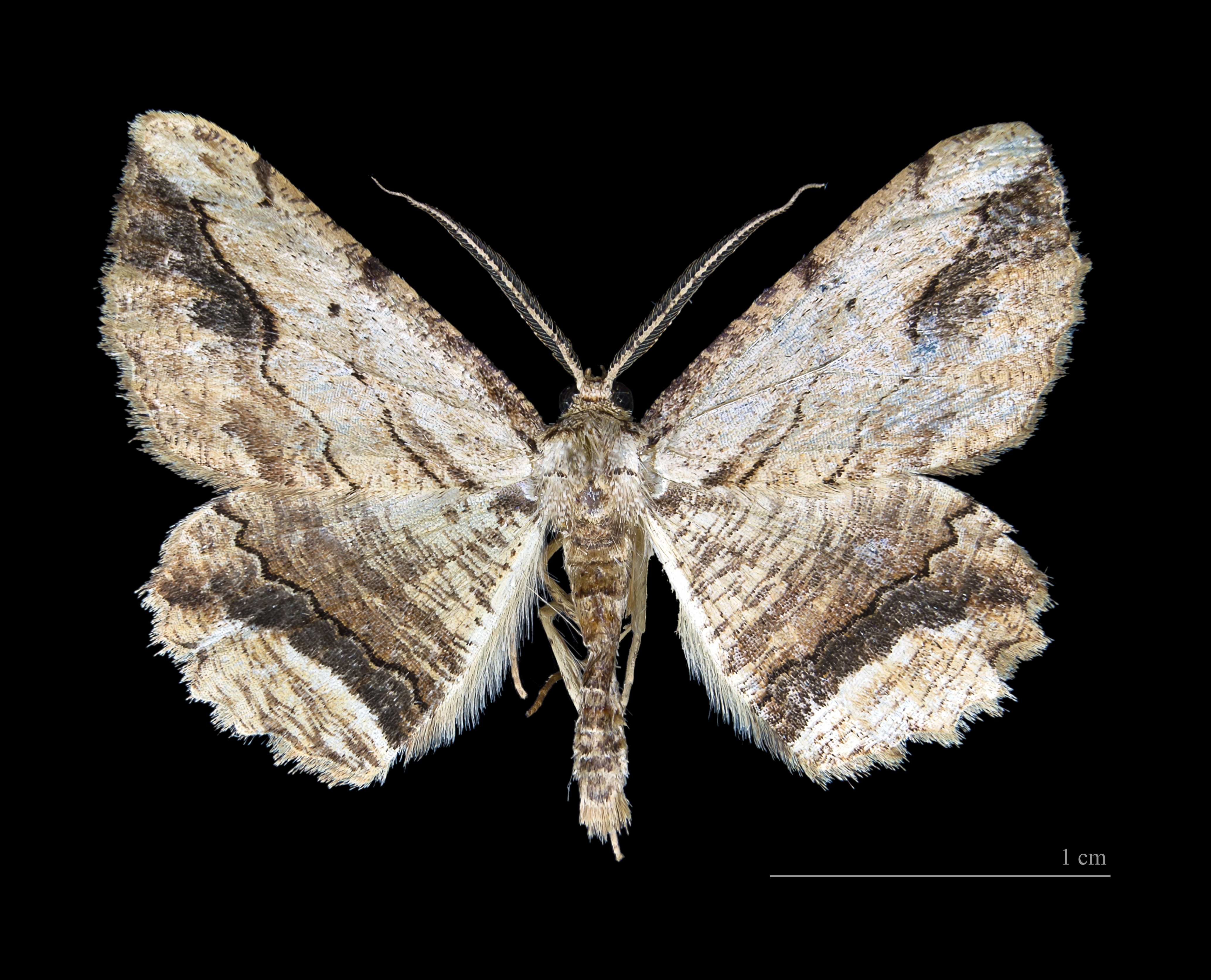 Waved Umber ♂ - Dorsal side Locality:Lasparets, Sainte-Croix-Volvestre, Ariège, France